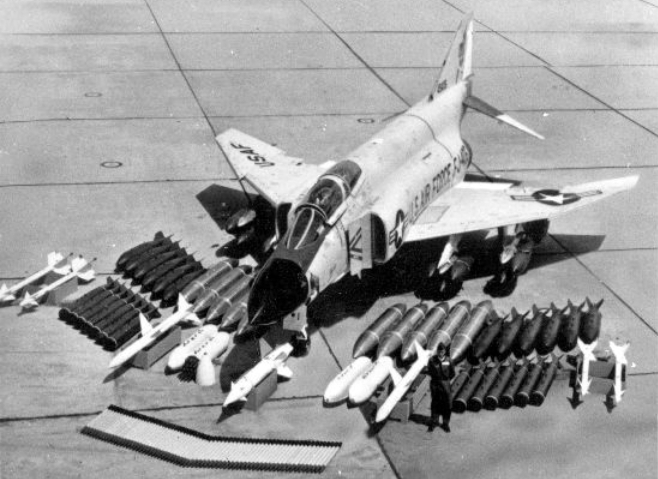 A U.S. Air Force McDonnell F-110A Spectre (borrowed USN F4H-1 Phantom II) from the 12th Tactical Fighter Wing, MacDill AFB, Florida (USA) in 1964, on display showing weapons capability.